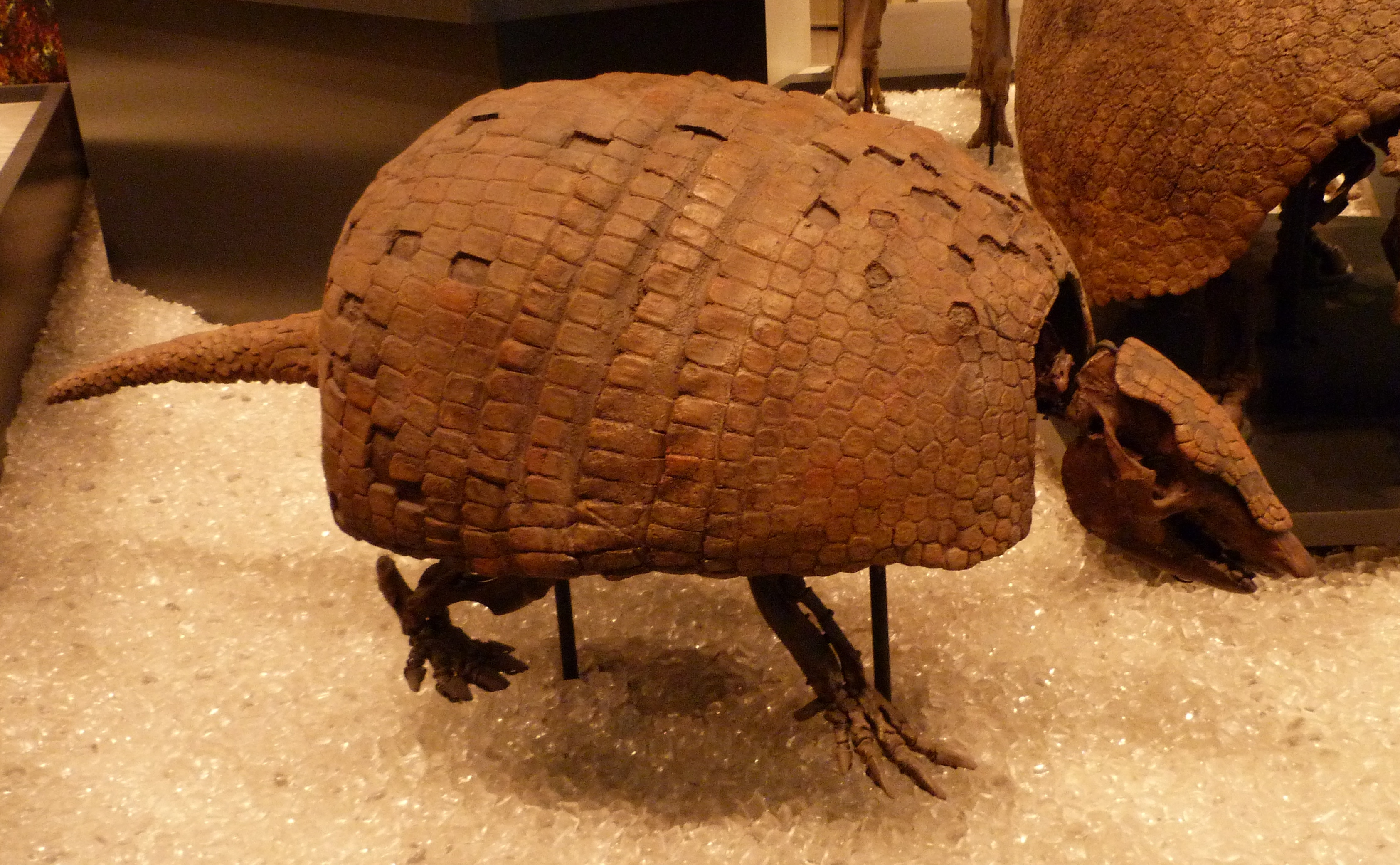 Pampathere - a large extinct vegetarian relative of armadillos